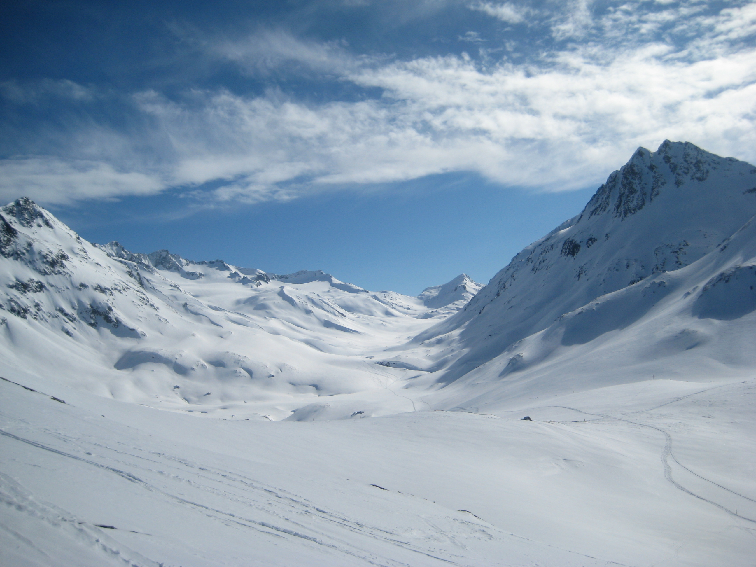 Val Maighels